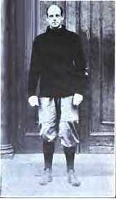 Photograph of early American football player and coach Percy Haughton from Daly, Charles Dudley (1921) American Football, Category:New York: Harper, pp. 101 OCLC 1445510.